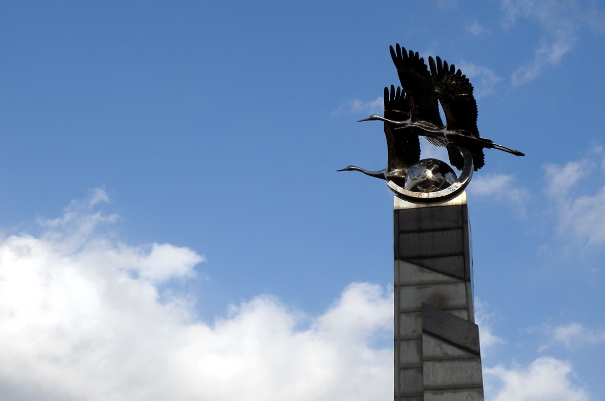 Chosun University Crane